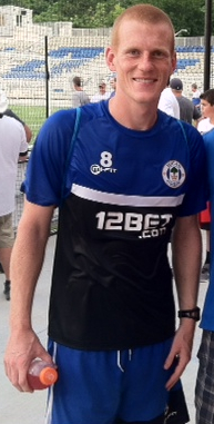 Cropped version of File:Ben_Watson_in_Pittsburg.JPG